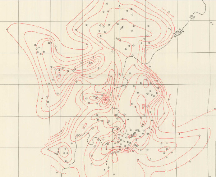 Jackson gas wells map